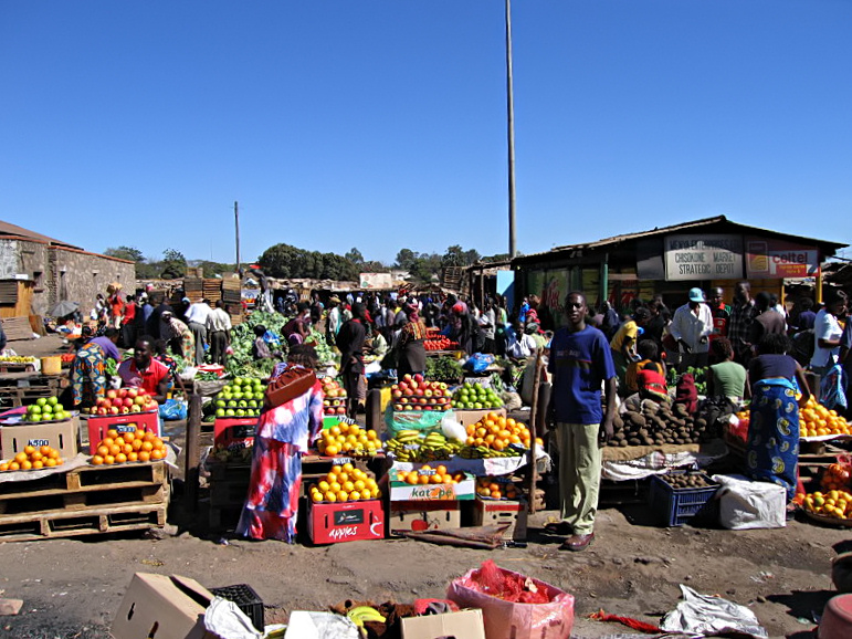 Chisokone Market in Kitwe/Zambia